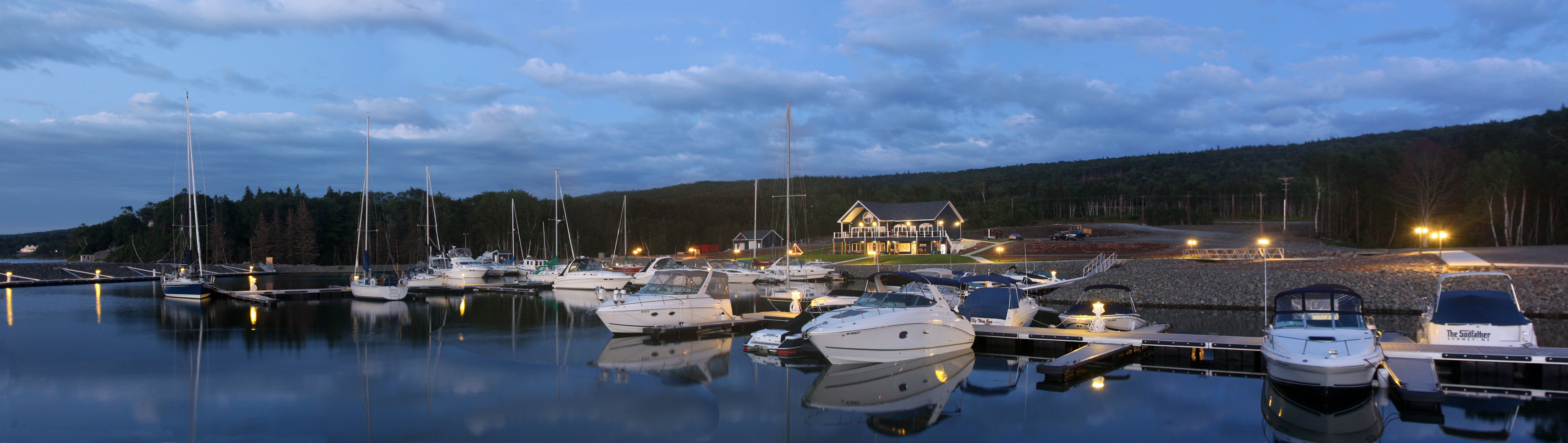 Ben Eoin Marina, in the community of Ben Eoin, Nova Scotia, is located on the East Bay of the Bras d'Or Lake on Cape Breton Island in the Canadian province of Nova Scotia. East Bay is one of three long narrow arms that extend to the east of the main body of the Bras d'Or Lake, the others being St. Andrews Channel and Great Bras d'Or Channel. As East Bay is part of the Bras d'Or Lake system and the lake is essentially a fiordal system connected to the North Atlantic via two restricted channels at the Great Bras d'Or Channel north of Boularderie Island and the Little Bras d'Or Channel to south of Boularderie Island, the waters of East Bay are brackish, partially fresh/ salt water. East Bay opens to the south-west directly onto the Bras d'Or Lake and lies between the Boisdale Hills to the north and the East Bay Hills to the south. The bay measures 8.3 kilometres (5.2 mi) wide at its mouth, between Benacadie Point to the north, and Middle Cape to the south and runs easterly 41 kilometres (25 mi) to its terminus at Portage. East Bay has 77.9 kilometres (48.4 mi) of shoreline. The bay's shores are generally heavily wooded and consist mainly of bold and rocky shorelines interspersed with numerous barrachois (barrier) points and beaches. Glacial drumlin deposits form a group of islands along the northern shore of East Bay. The narrower eastern end of the bay is bridged by the East Bay Sandbar, running east-west 1.25 kilometres (0.78 mi).